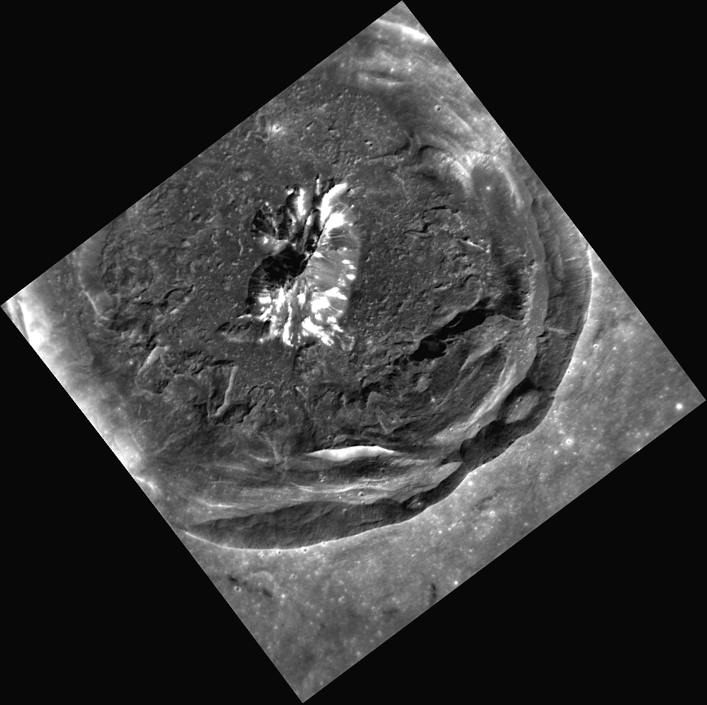 Date acquired: May 05, 2013 Image Mission Elapsed Time (MET): 10038848 Image ID: 4007458 Instrument: Narrow Angle Camera (NAC) of the Mercury Dual Imaging System (MDIS) Center Latitude: 30.27° Center Longitude: 157.2° E Resolution: 30 meters/pixel Scale: Cunningham has a diameter of 38 kilometers (24 miles) Incidence Angle: 38.8° Emission Angle: 5.1° Phase Angle: 35.8° Of Interest: This new, high-resolution view of Cunningham crater was recently acquired by MESSENGER. What you can't see in this image, which shows striking details of the crater's interior, is the extensive set of rays associated with Cunningham. The bright rays of Cunningham indicate that the crater is relatively young, having formed on Mercury likely within the last billion years. In this new view, the preserved terraces of the crater walls, the well-defined central peak, and the limited number of overlying small craters are also all signs of Cunningham's relative youth. This image was acquired as a targeted set of stereo images. Targeted stereo observations are acquired at resolutions much higher than that of the 200-meter/pixel stereo base map. These targets acquired with the NAC enable the detailed topography of Mercury's surface to be determined for a local area of interest.